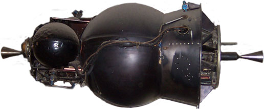 Able IV, the world's first space engine, was built as part of the Pioneer program. A launch attempt made on November 26, 1959, resulted in the loss of the spacecraft.